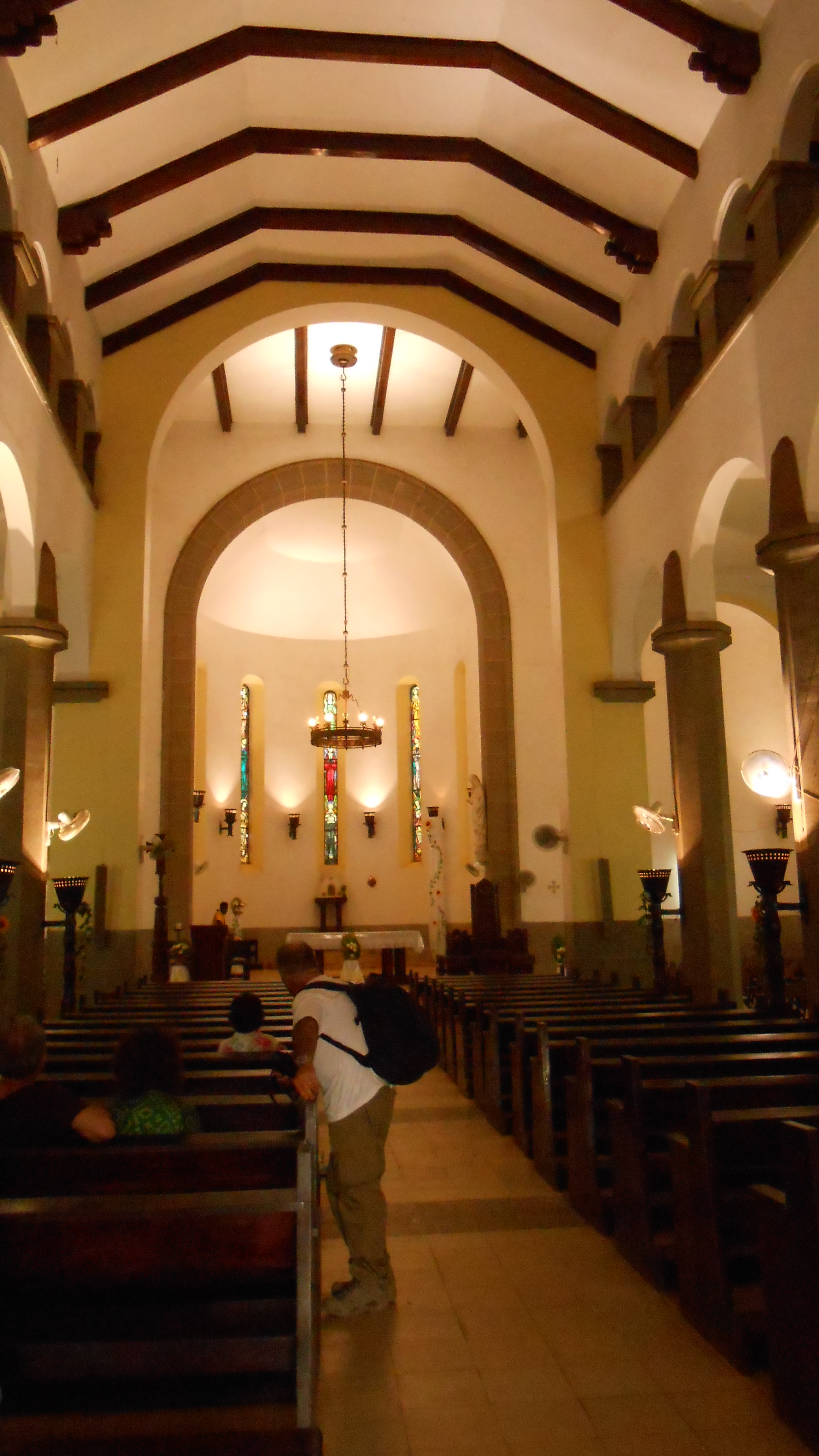 Interior of the catholic cathedral of Bissau.